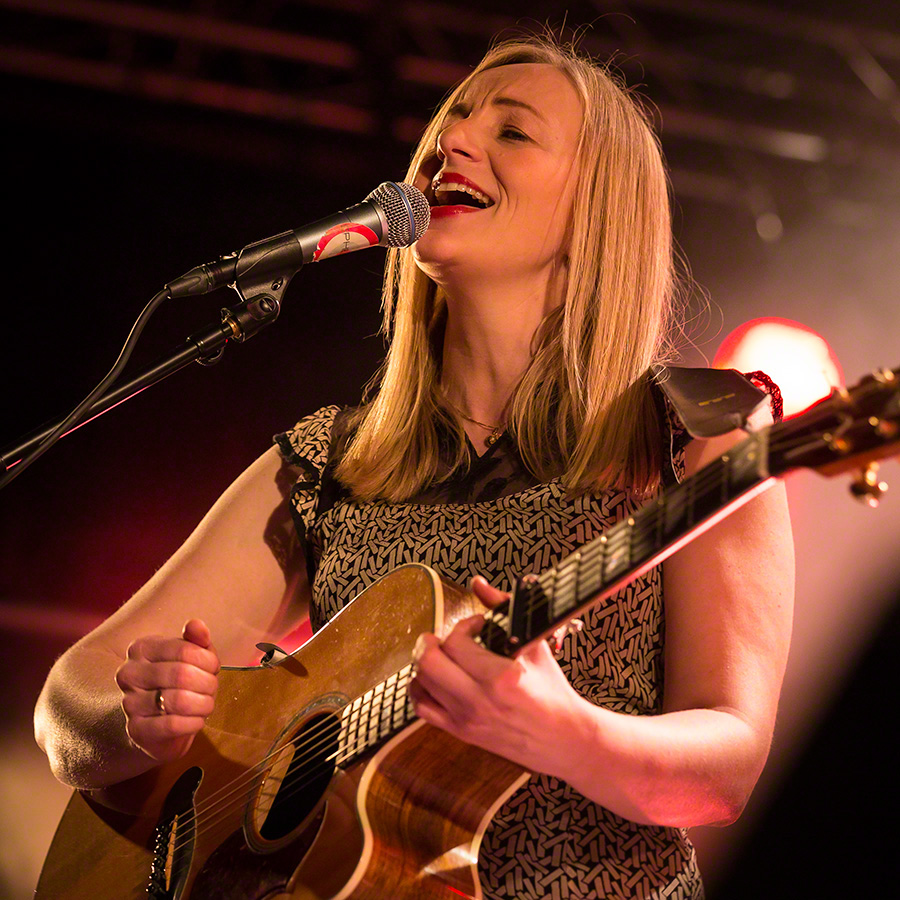 Christine Sandtorv at the reunion concert with Ephemera at Parkteatret in Oslo on 16.04.2016. Lineup:Jannicke Larsen (keyboard)Ingerlise Størksen (guitar)Christine Sandtorv (guitar)